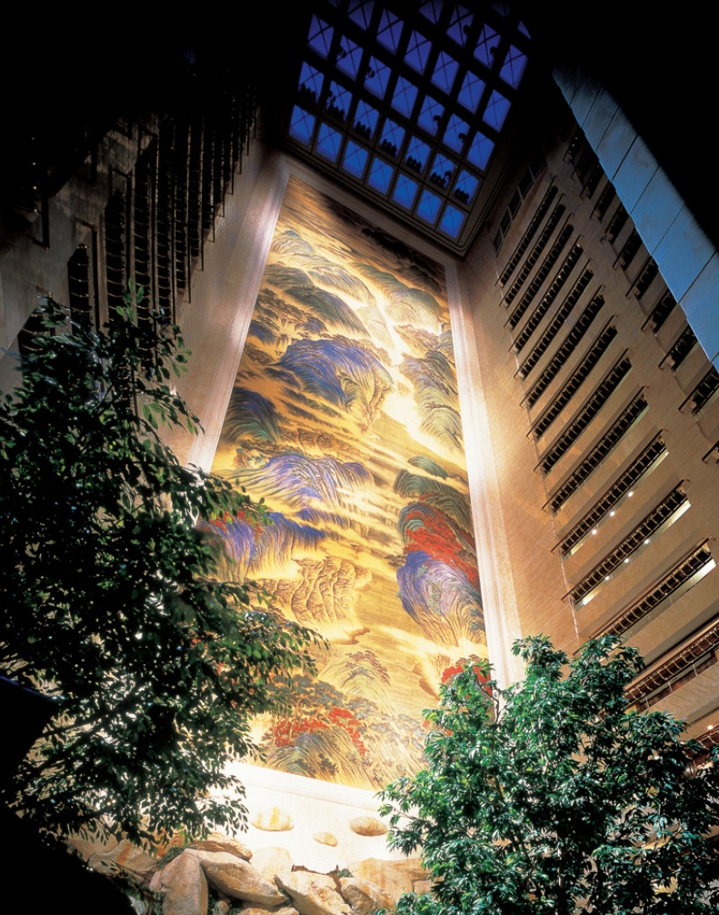 Island Shangri-La, Hong Kong - The Great Motherland of China